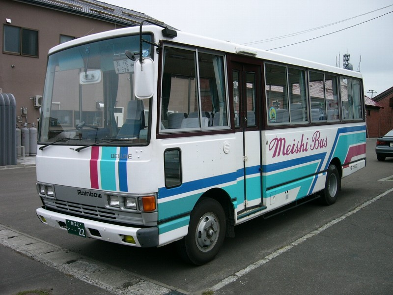 Hino Rainbow used at Meishi bus, Bifuka, Hokkaido, Japan. The bus served for Bifuka-station - Niupu line.